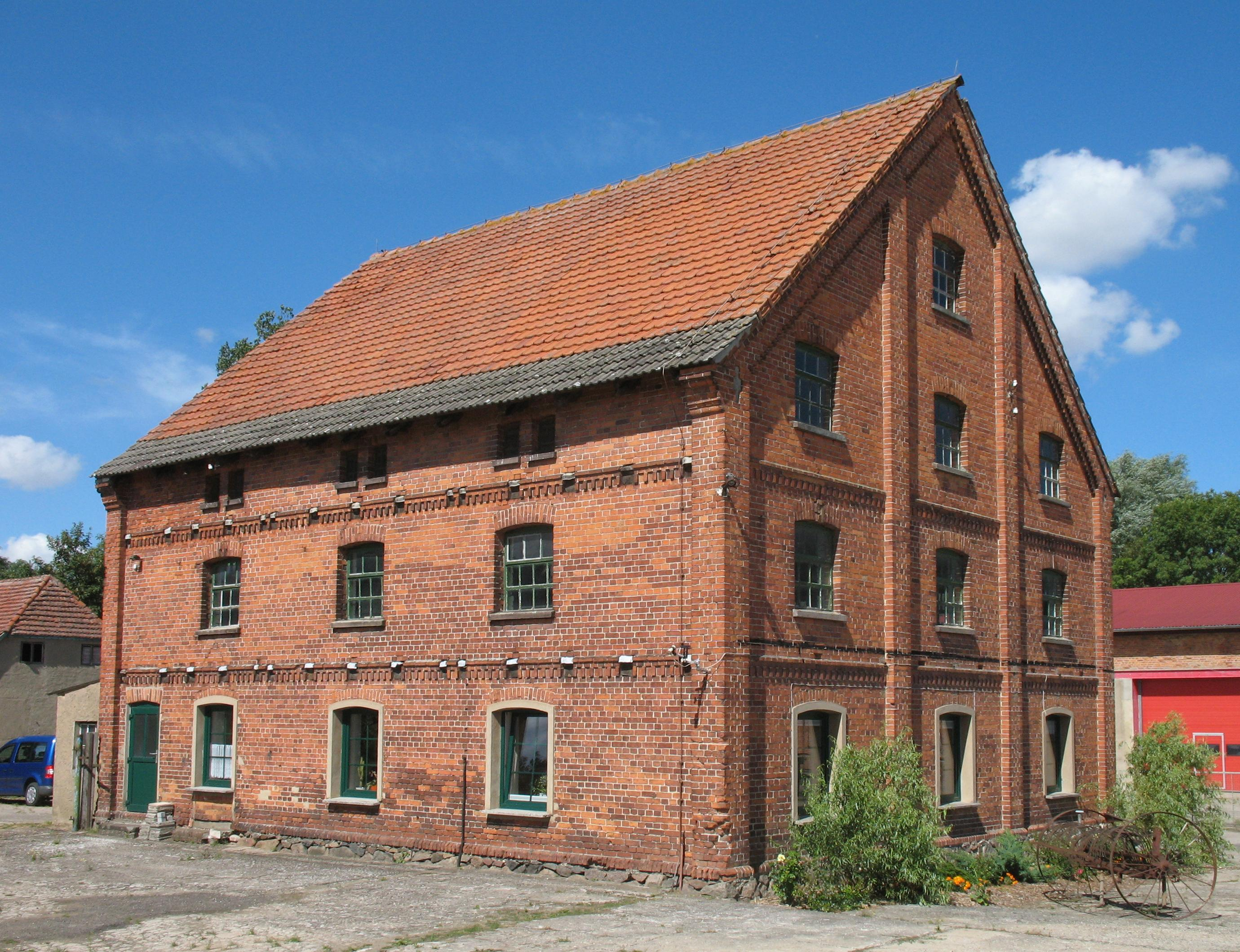 Storehouse in Mestlin in Mecklenburg-Western Pomerania, Germany